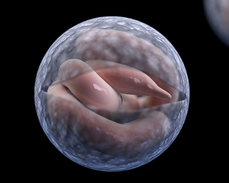 Cryptosporidium is a microscopic parasite that causes the diarrheal disease cryptosporidiosis.